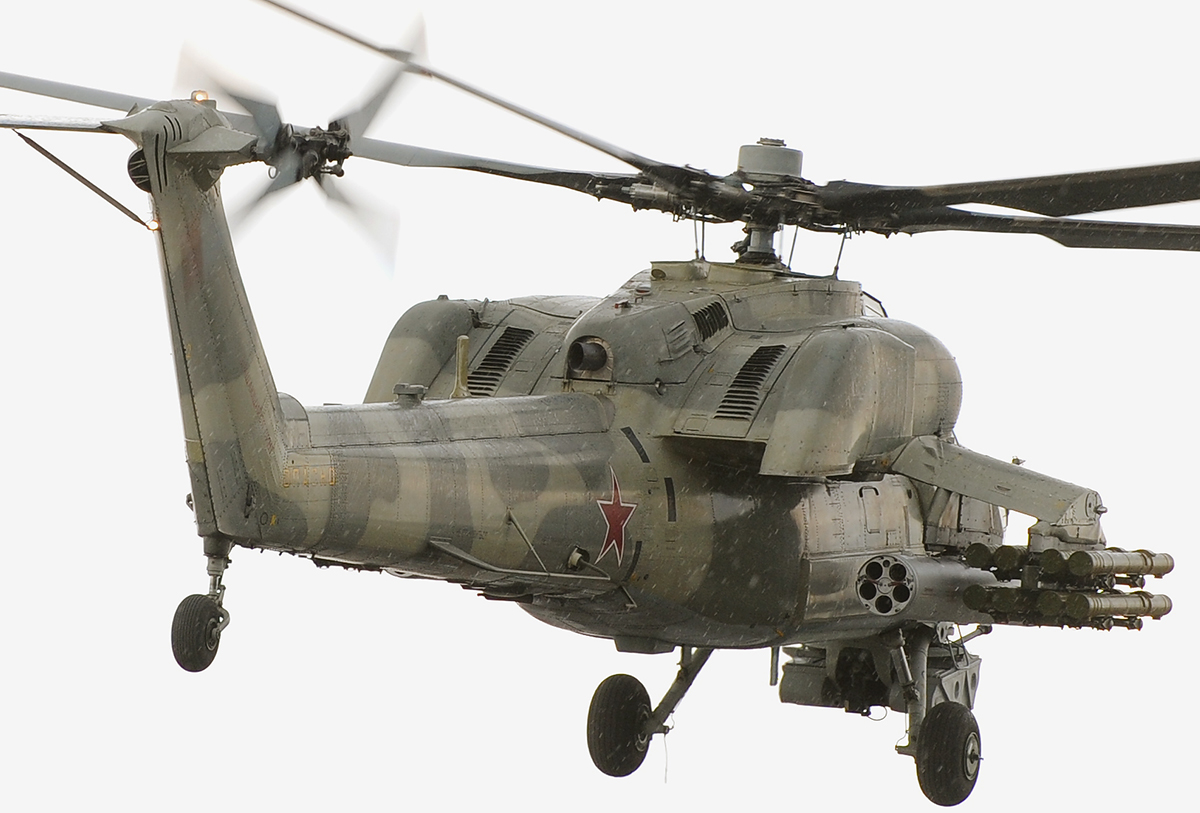 Rain. Flight. Mi-28.